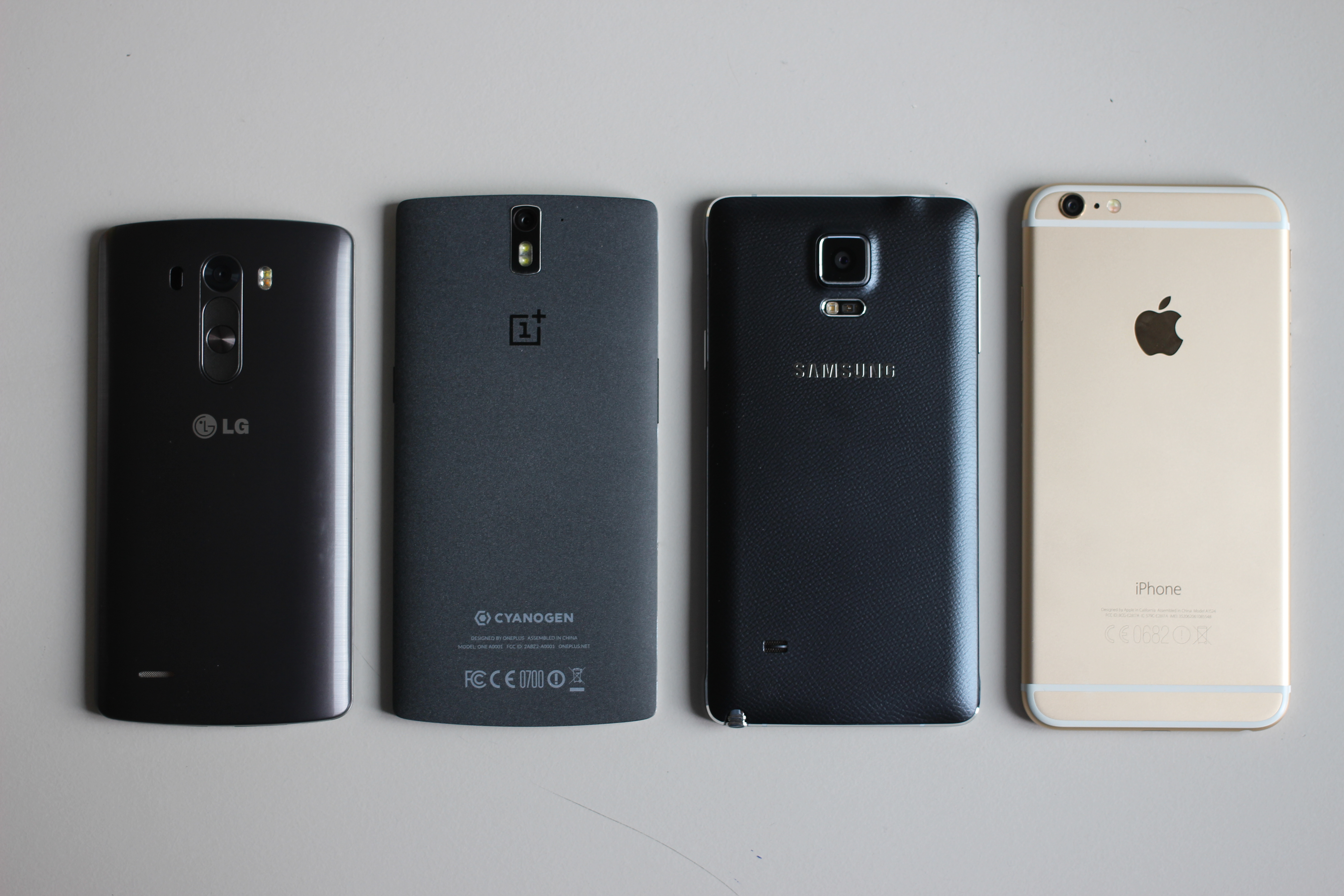 OnePlus One vs LG G3 vs Apple iPhone 6 Plus vs Samsung Galaxy Note 4